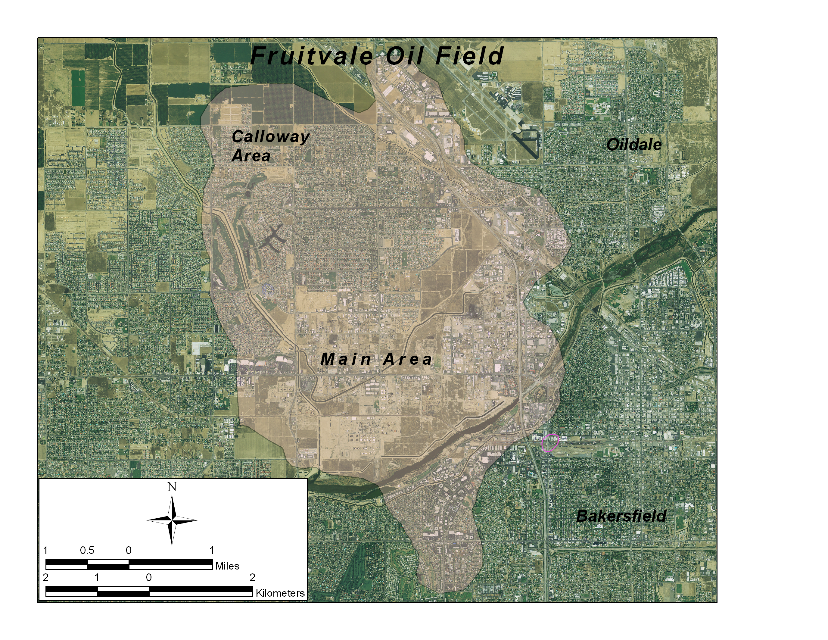 Aerial view of the Fruitvale field, with subareas labeled; by me, in ArcGIS 9.2; all data shown is in the public domain: GFDL